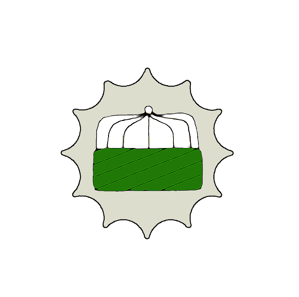 Teslim Tasi charged with Bektashi Taj